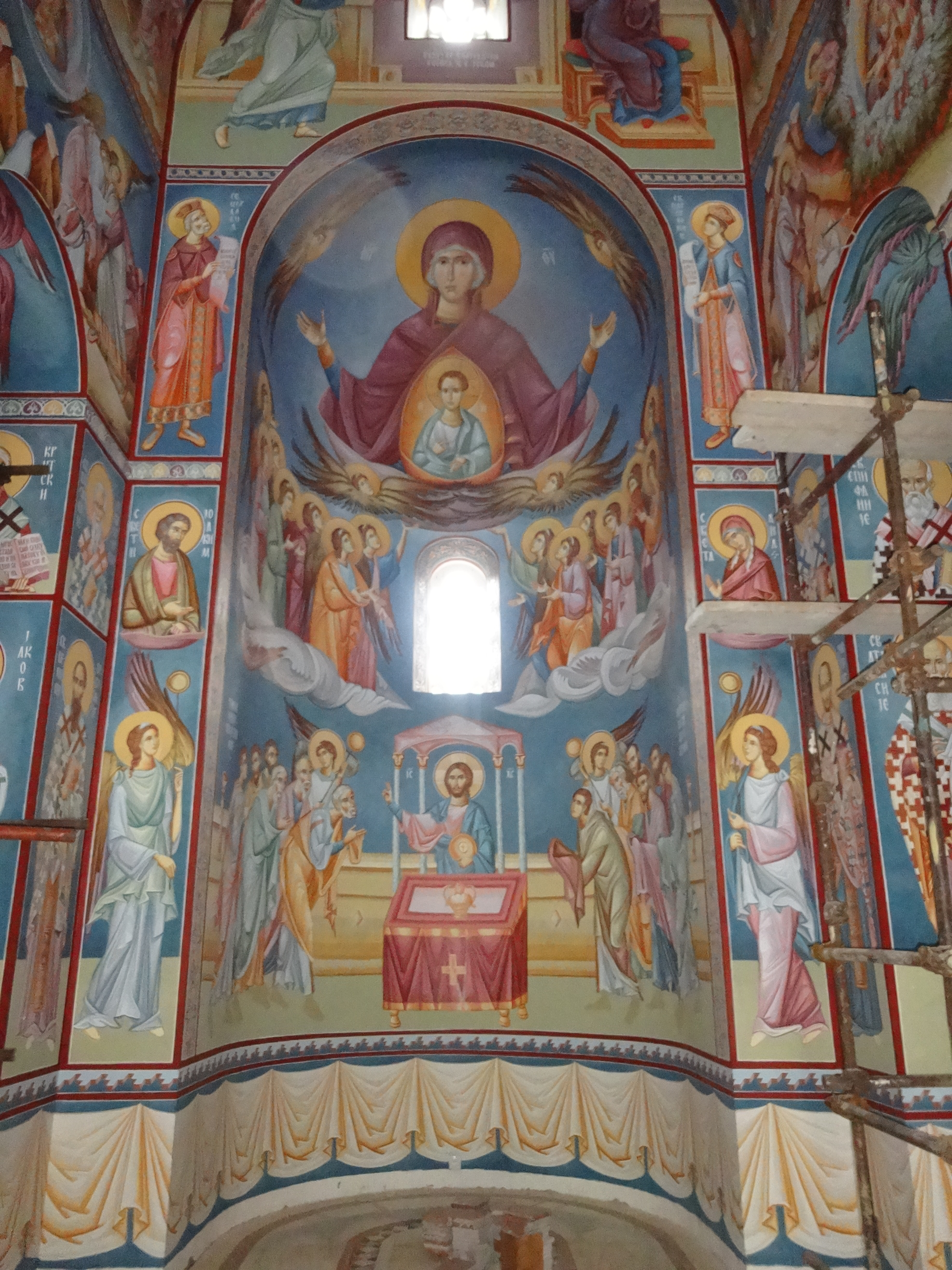 Ćelije Monastery is an orthodox monastery located near Valjevo.